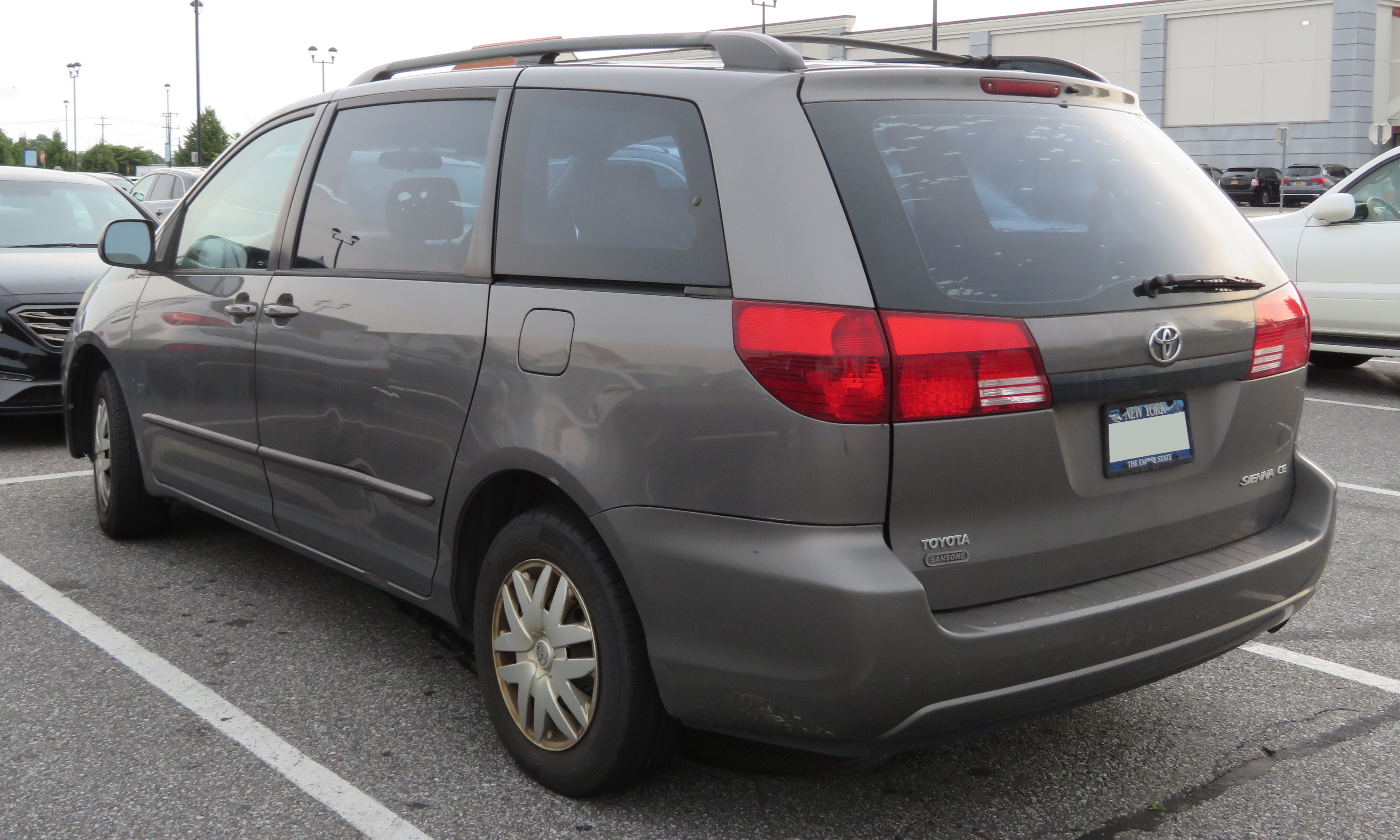 Photographed in Long Island, New York